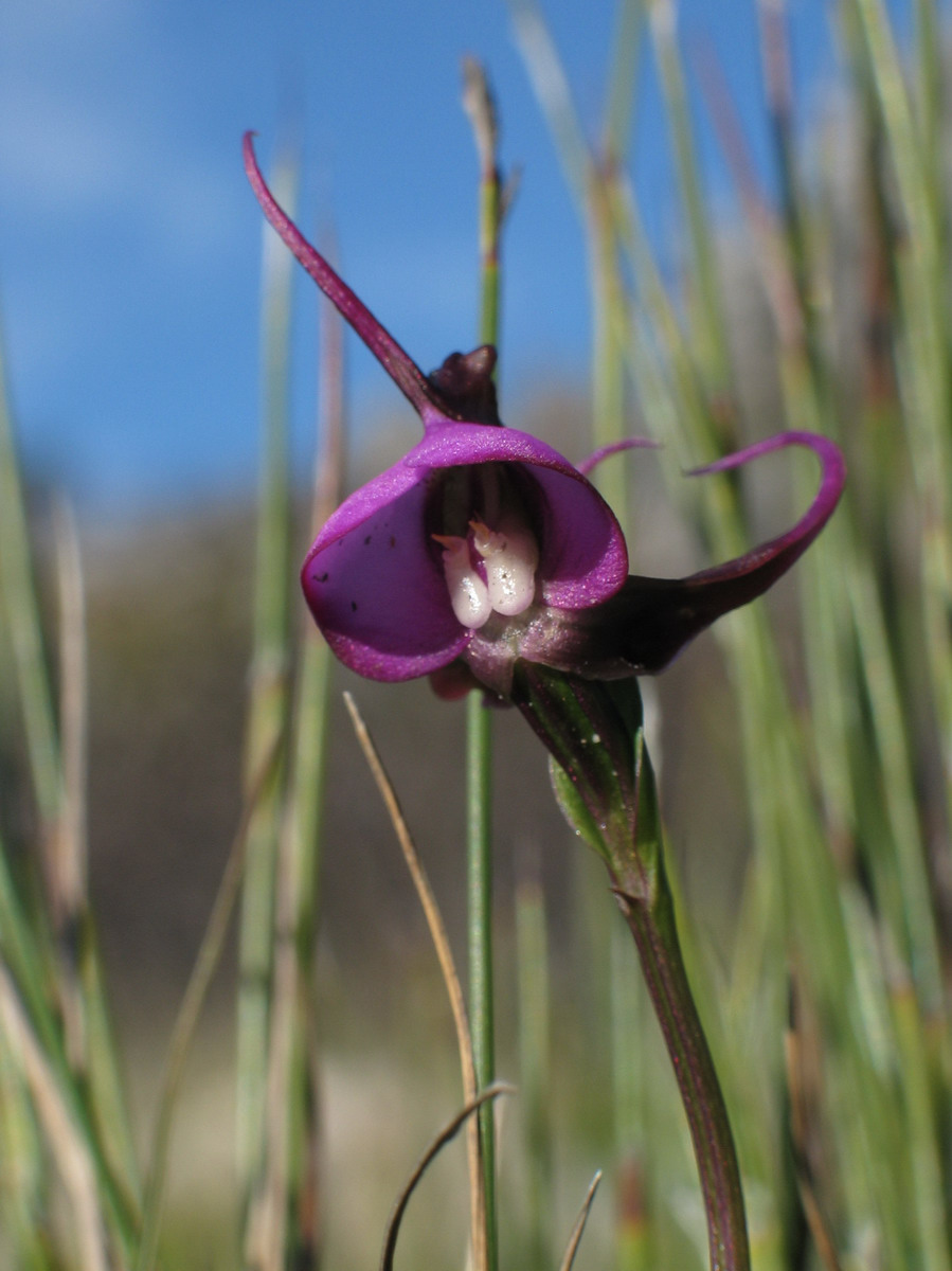 Disperis capensis, Table Mountain, South Africa